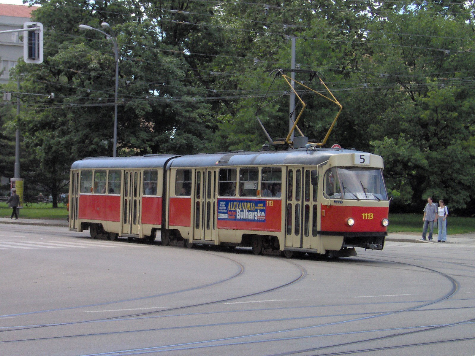 Tatra K2 tram in Brno, Czech Republic